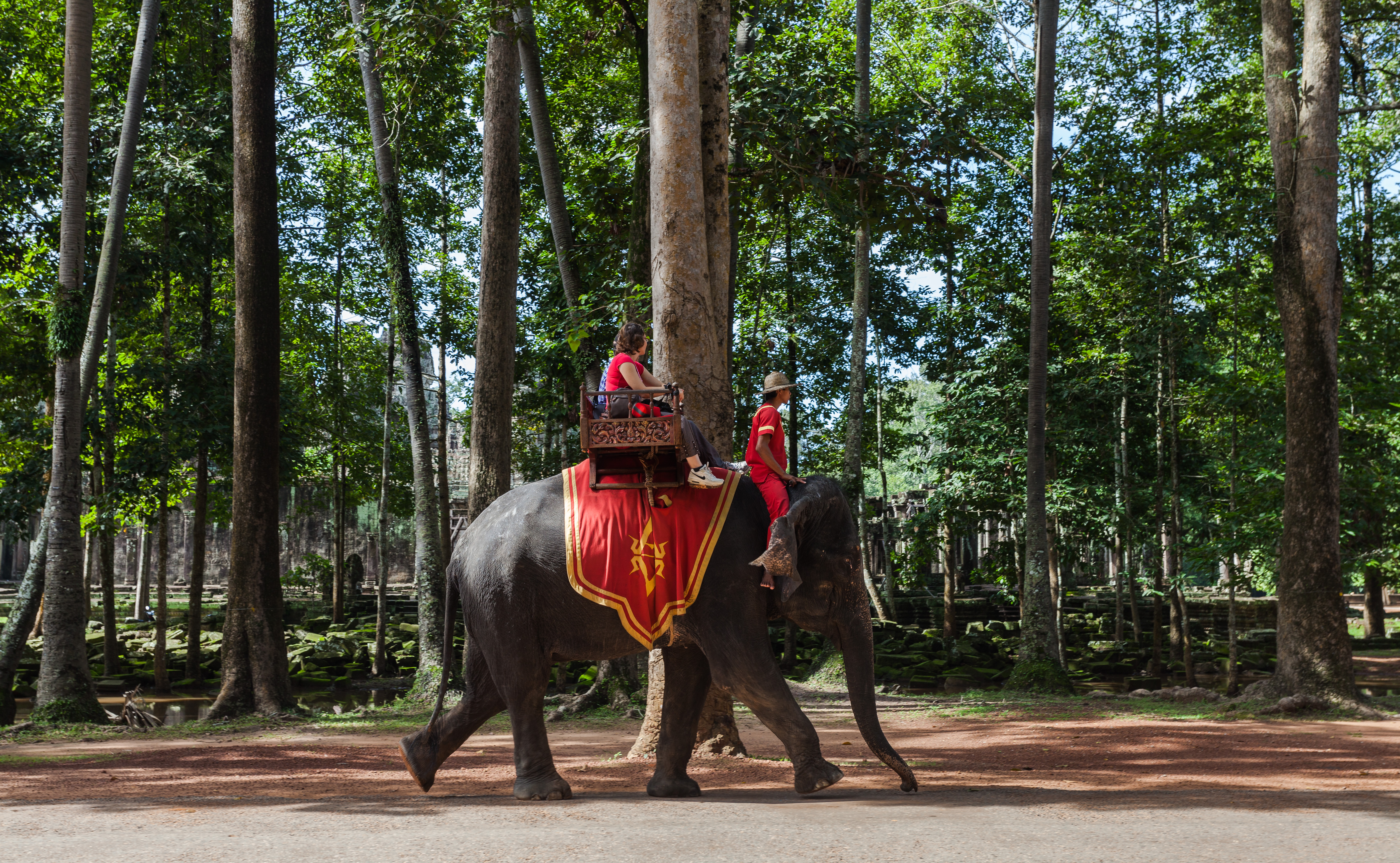 Elephant, Angkor Thom, Cambodia